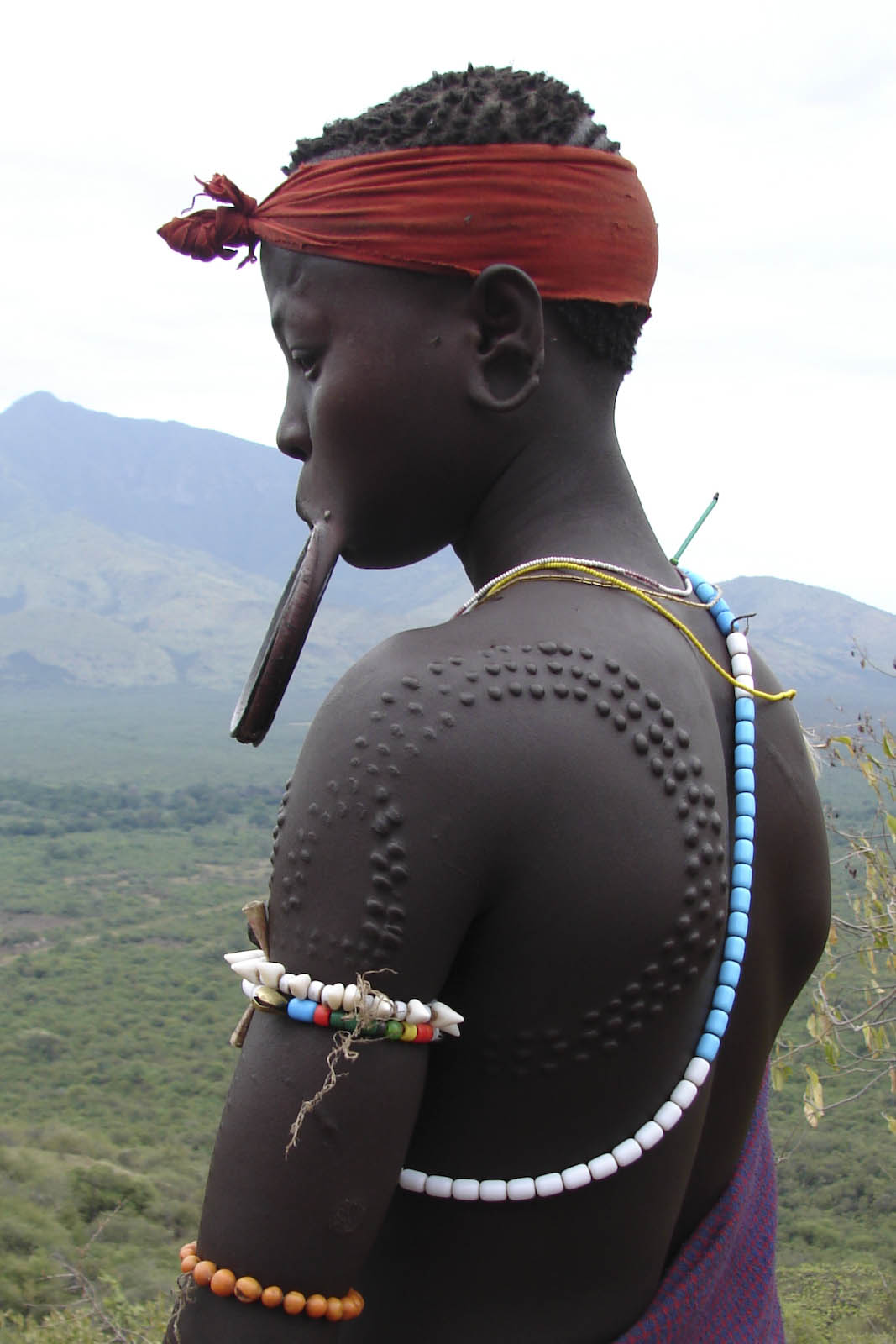 Murzi woman (Ethiopia)